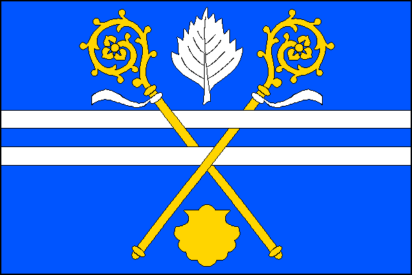 Municipal flag of Panenské Břežany village, Prague-East District, Czech Republic.